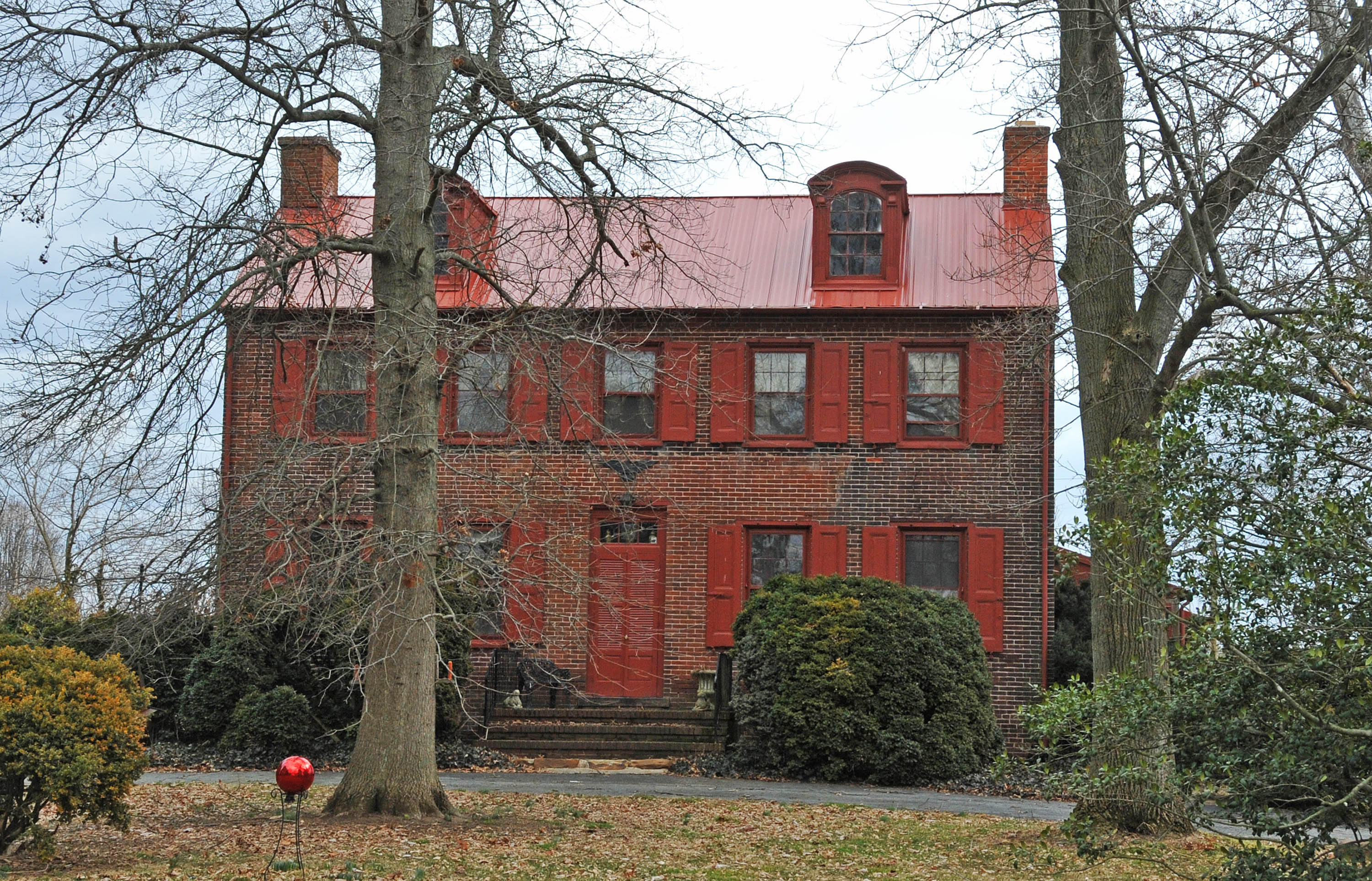 1846- BIGGS WAS 46TH GOVERNOR OF DELAWARE AND A U.S. REPRESENTATIVE.